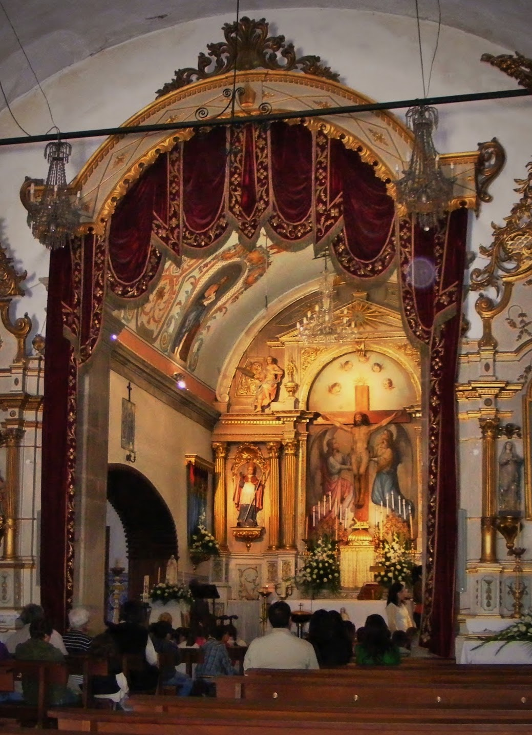 Triumphal Arch of the High Altar, Church of Saint Martin, Argoncilhe.